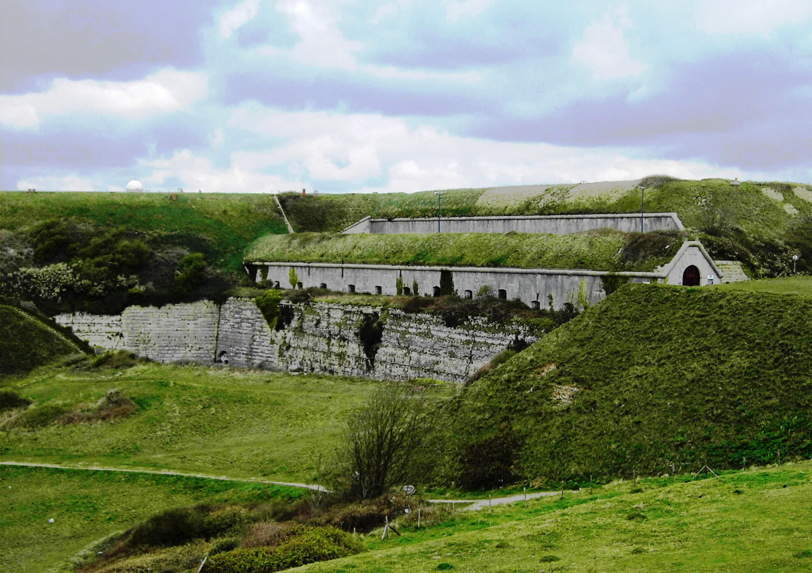 HMP Verne Prison on the Isle of Portland taken from New Ground